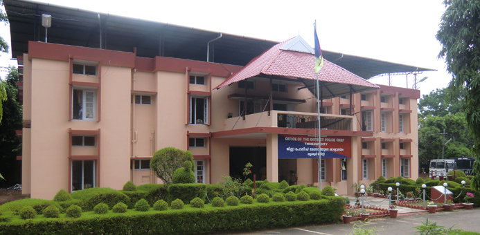 Office of the District Police Chief, Thrissur City is located at Ramavaramapuram, Thrissur about 6 Km from Thrissur Town.